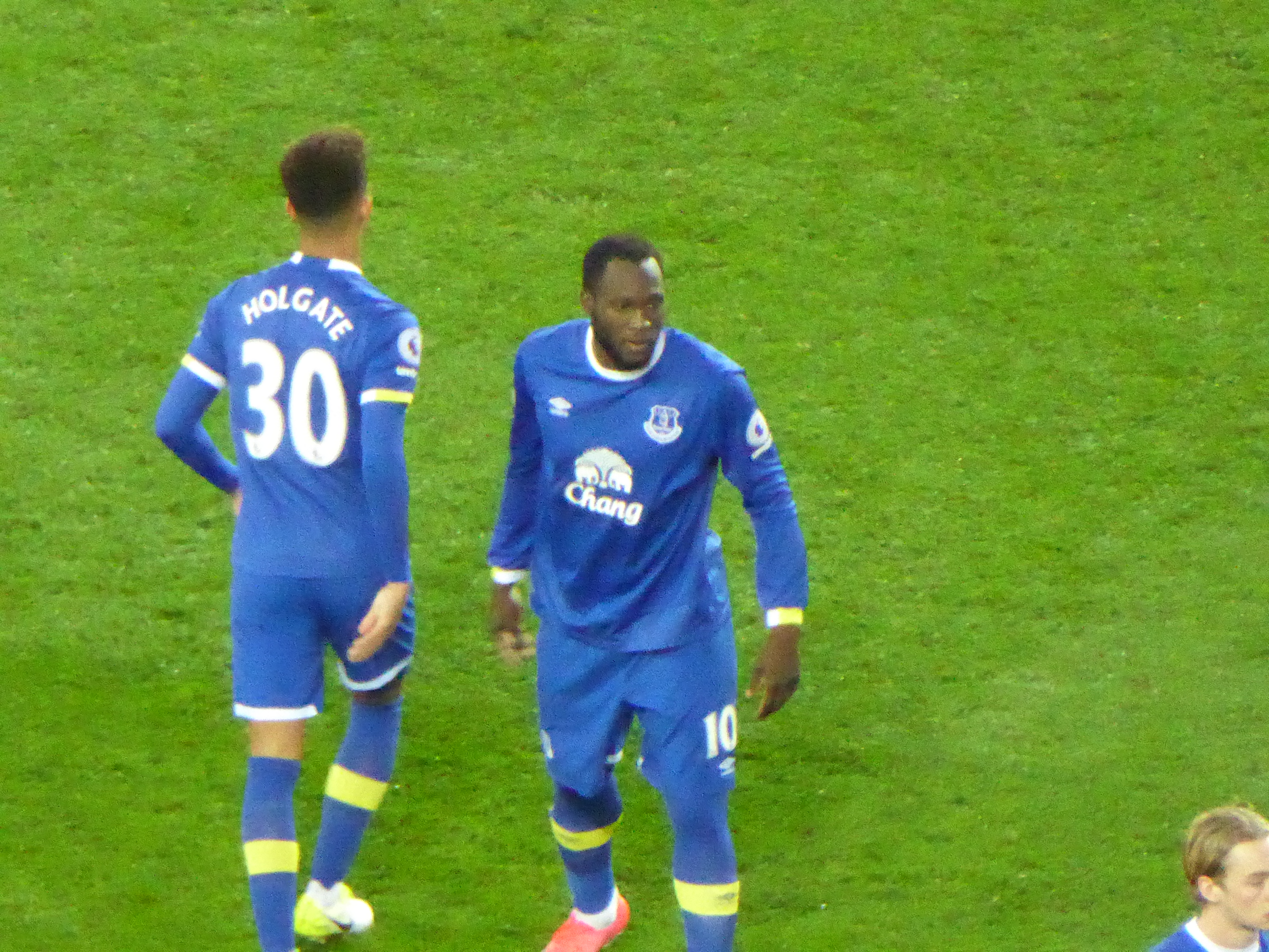 Manchester United v Everton (1-1), Premier League, Old Trafford, Manchester, Greater Manchester, England, 4 April 2017